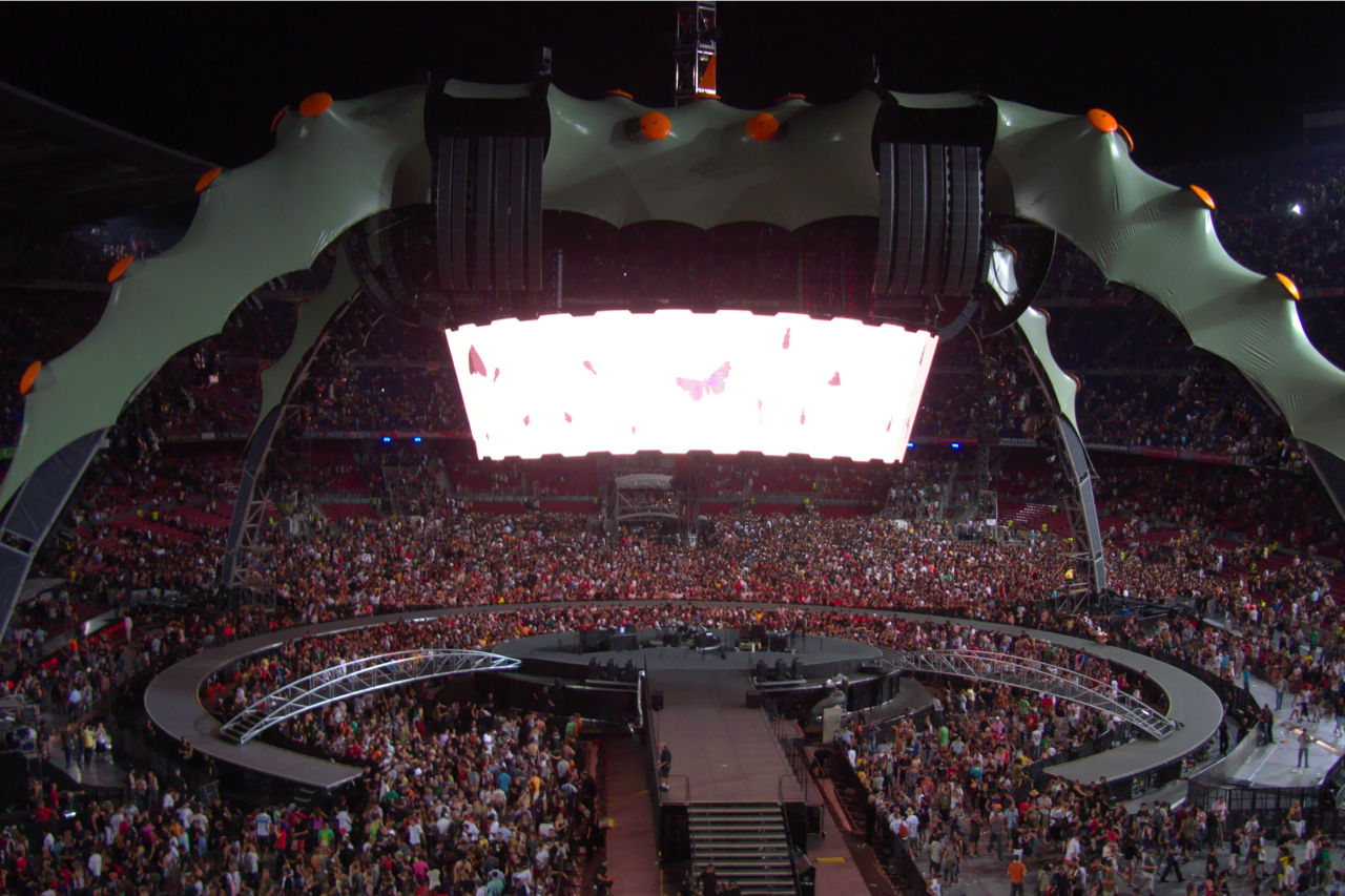 U2 360° Tour stage in Barcelona